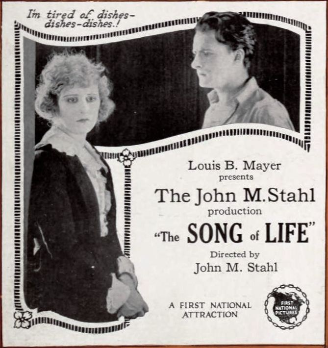 Advertisement for the American drama film The Song of Life (1922) with Grace Darmond and Gaston Glass, on the cover of the January 14, 1922 Exhibitors Herald.